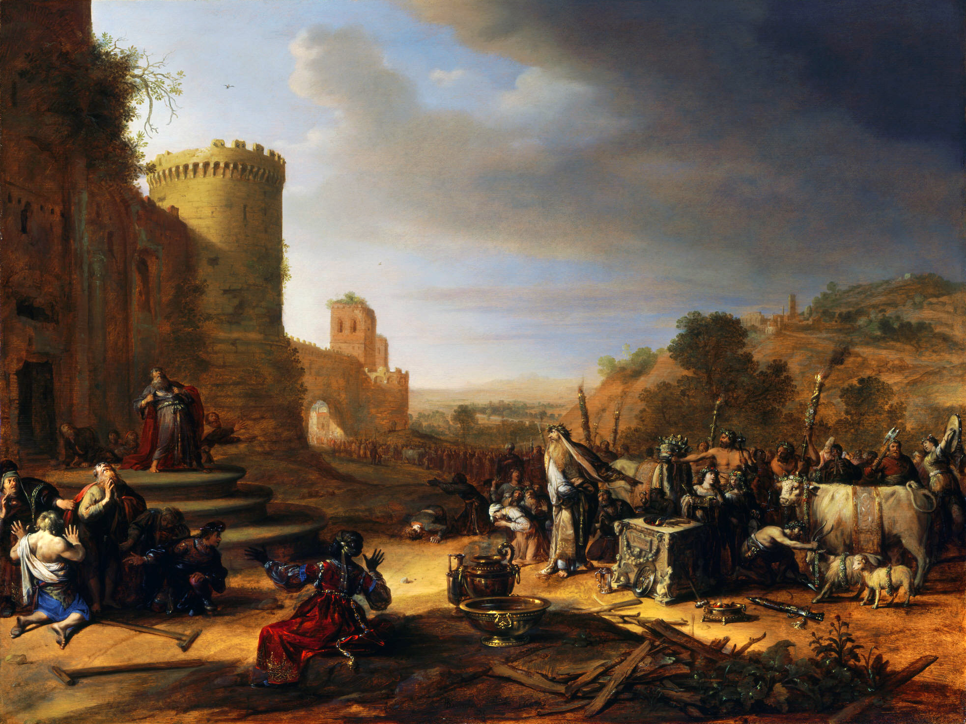 The subject of Saints Paul and Barnabas at Lystra, rare in European painting, provided Breenbergh an opportunity to prove his familiarity with biblical narrative. In Acts 14:7–24, Paul and Barnabas, mistaken for Jupiter and Mercury after having miraculously cured a lame man, must prevent a pagan priest from making a blasphemous sacrifice in their honor. Breenbergh composed this scene with fidelity to the text, registering the saints’ distress by showing Paul tearing his garments while Barnabas runs to stop the ritual. The Italianizing scenery departs from the story’s setting in Asia Minor. Breenbergh knew southern landscapes from his formative years in Rome (1619–29), when he was associated with the Schildersbent (painters’ clique), an association of Northern artists, and became familiar with classical art. Here, Breenbergh quotes motifs from Roman relief sculpture—sacrificial animals, musical instruments, and flower garlands—to recreate the scene accurately.